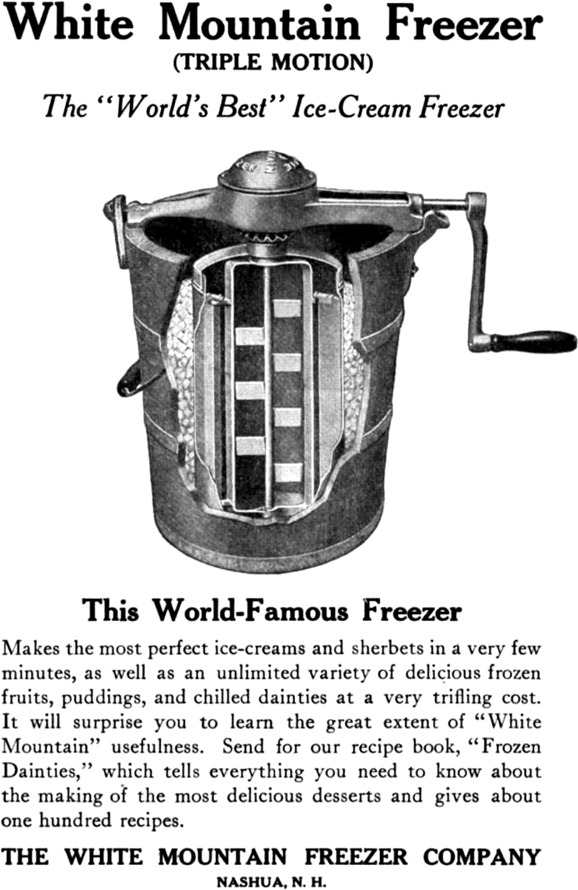 White Mountain Freezer (Triple Motion) The “World's Best” Ice Cream Freezer